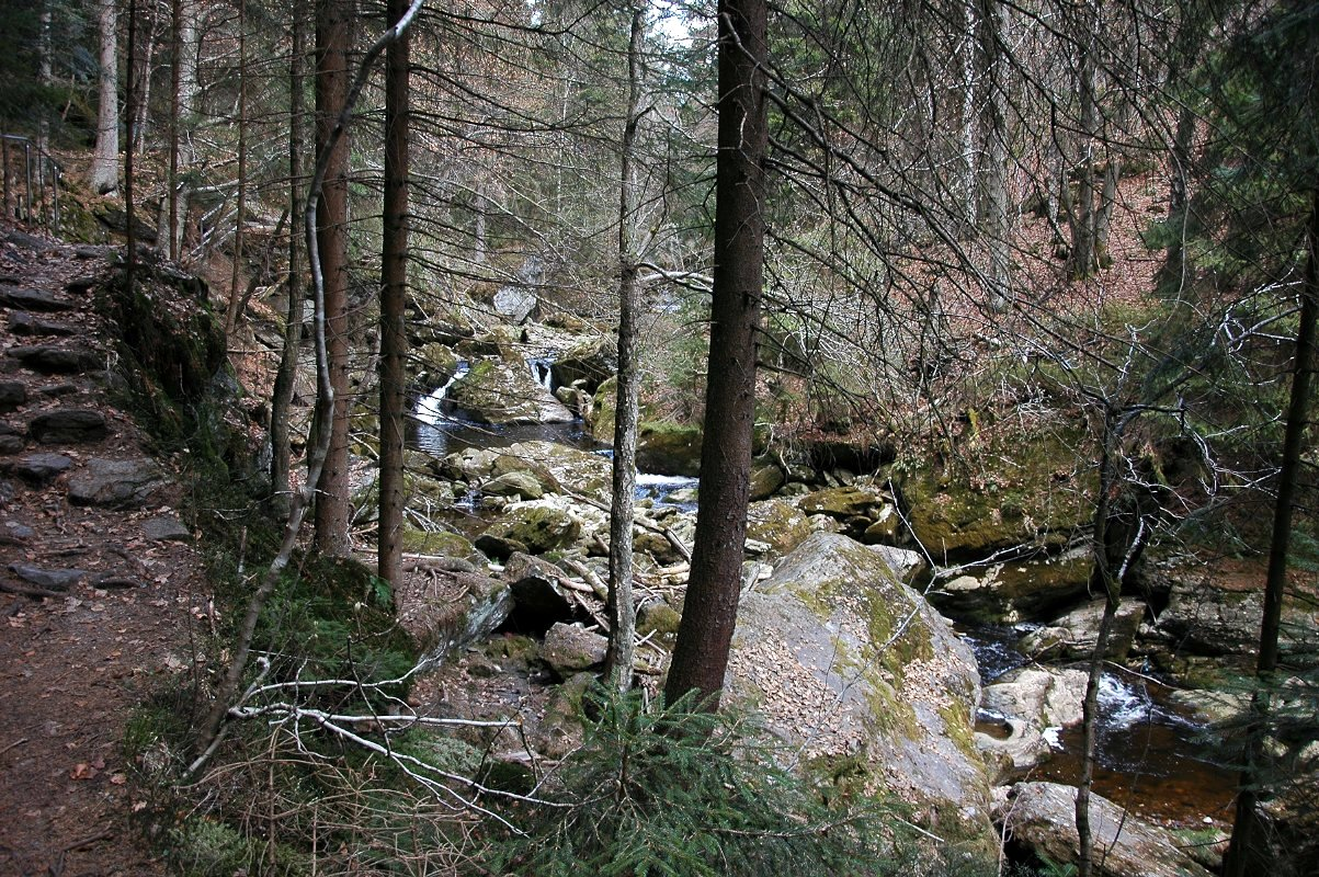 At the upper sector of the Steinklamm, south of Spiegelau, Bavarian Forest